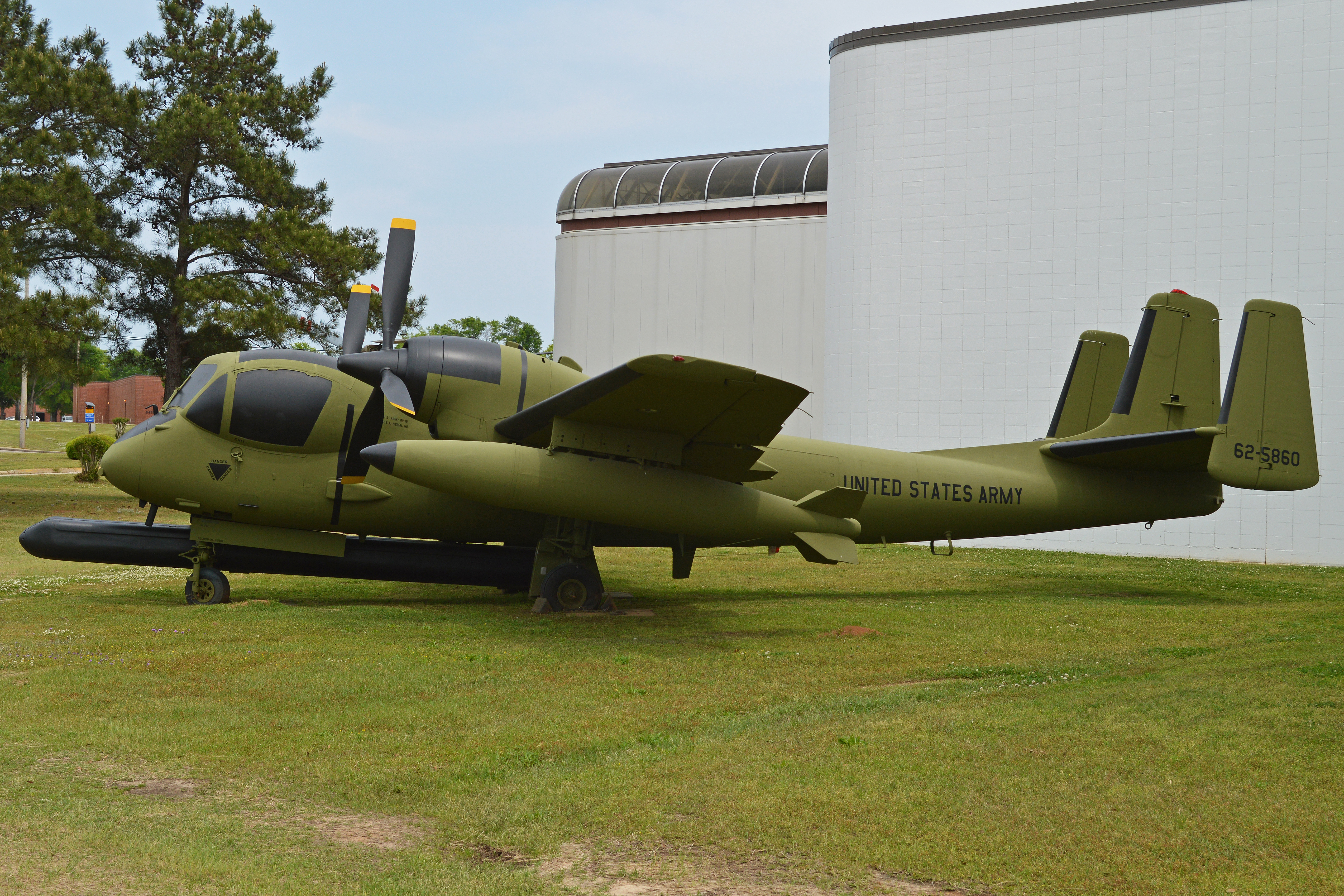 The OV-1B was the SLAR (side-looking radar) variant of which 101 were built. c/n 19B. US Army Aviation Museum. Fort Rucker. Alabama, USA. 17-4-2013